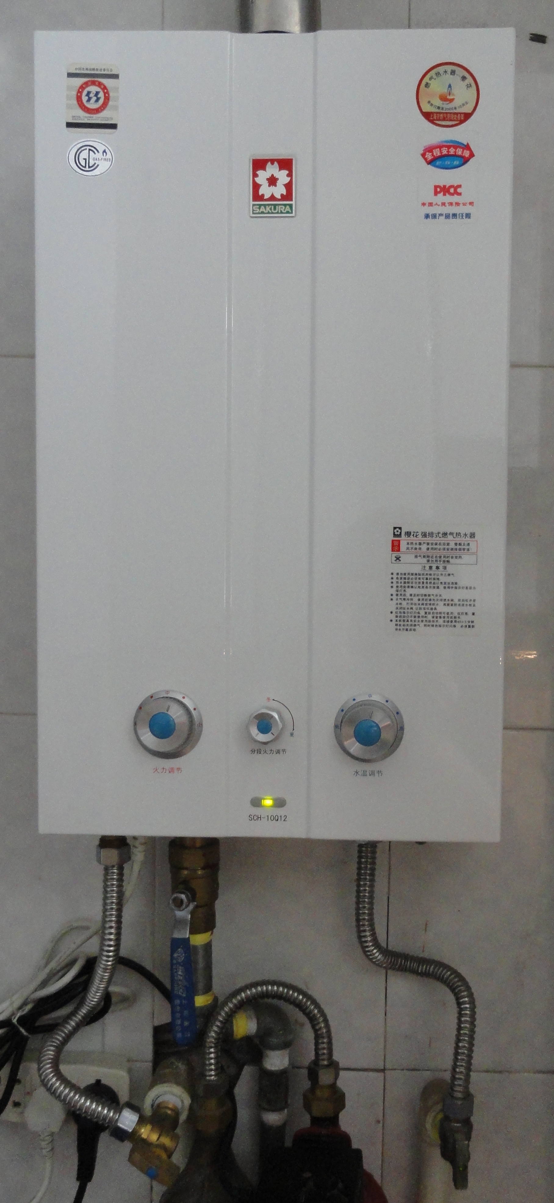 Sakura gas water heater